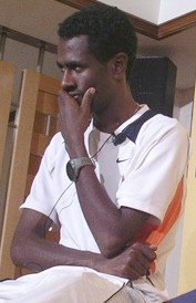 Sileshi Sihine (left) and Kenenisa Bekele (right) talk to reporters the day after finishing second and first, respectively, in the 10,000m at the 2007 World Championships in Athletics in Osaka, Japan.